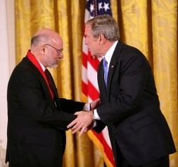 Stephen Balch receives National Humanities Medal